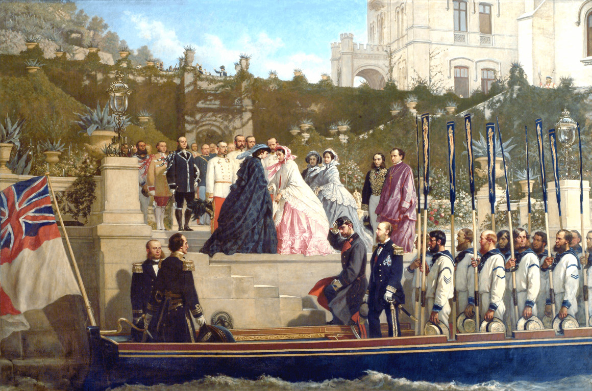 Visit of Empress Elisabeth at the Castello di Miramare 1861; Charlotte of Belgium (in white dress) welcomes Elisabeth while her husband Ferdinand Maximilian and his brother Emperor Franz Joseph I. wait on the boat